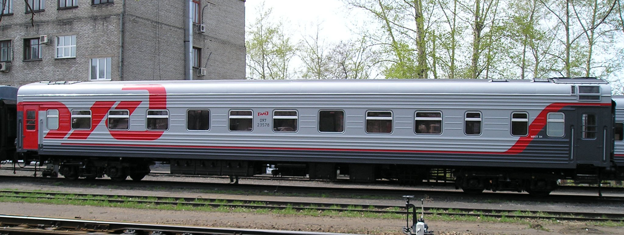 Carriage with numbered reserved seats (platz-karte) designed on new style of JSC Russian Railways